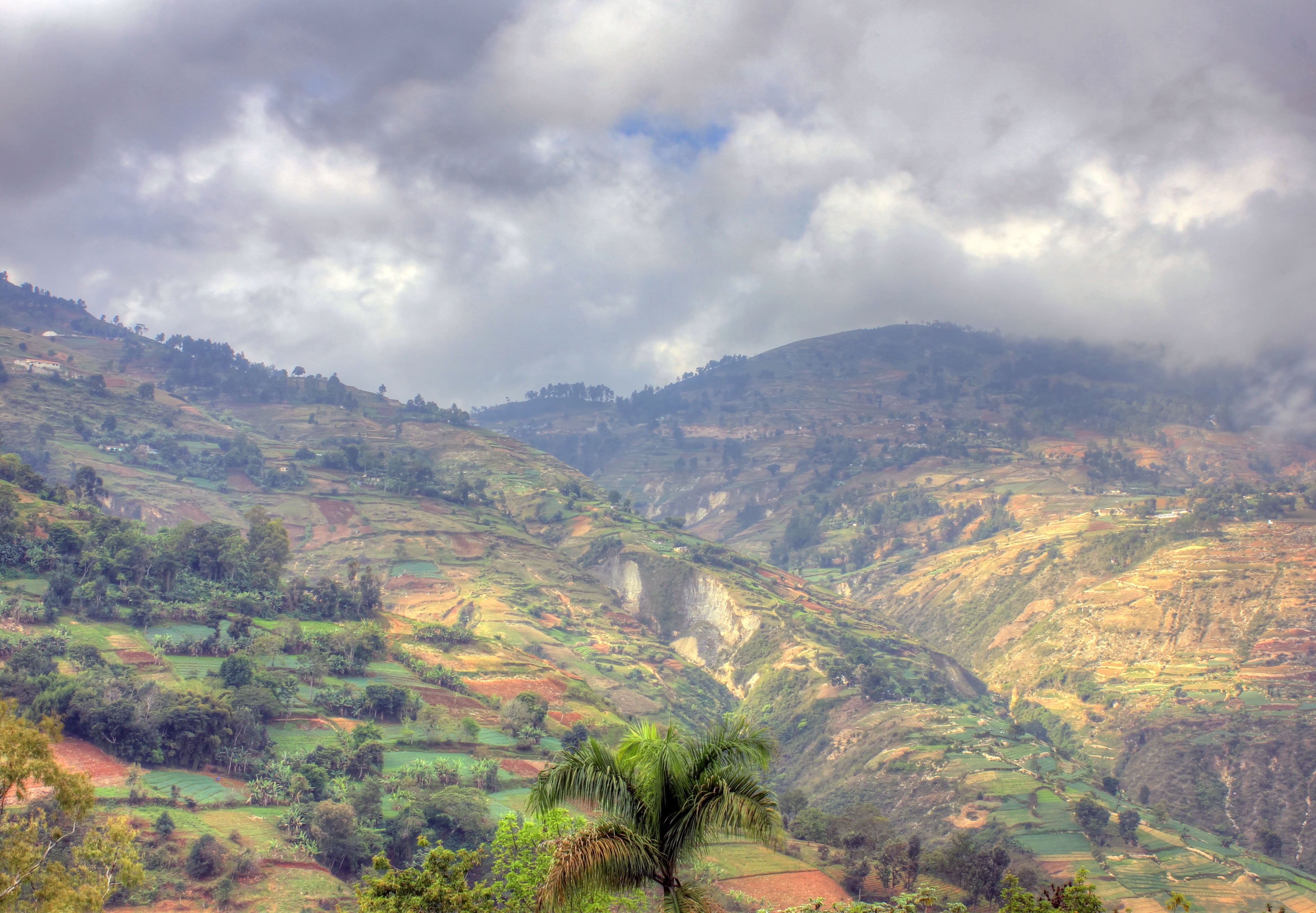 Pictures, landscapes, and places in the country of Haiti The Terraced Mountain Landscape